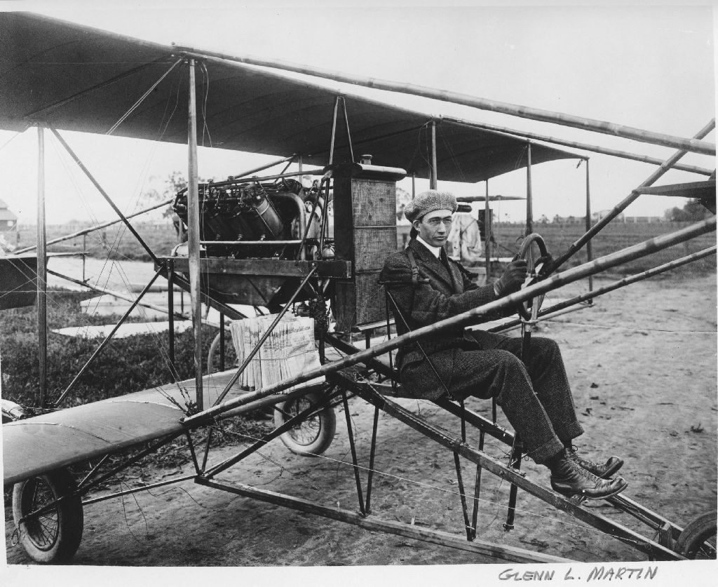 Glenn L. Martin in pusher-biplane. Note the newspapers stacked on wing. Martin delivered newspapers from Fresno to Madera as a part of his promotional efforts to fund first plant. Photo circa 1912? Repository: San Diego Air and Space Museum Archive